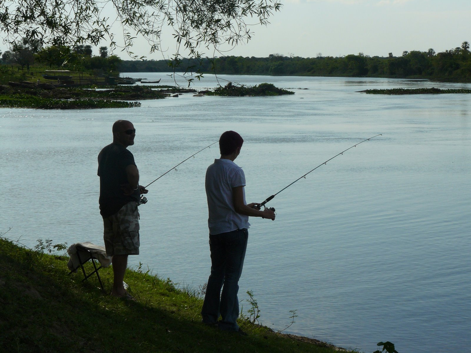 fishing at the sunset